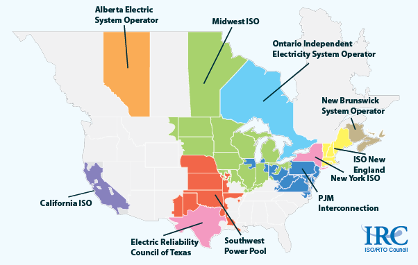 Map of the Regional Transmission Organizations